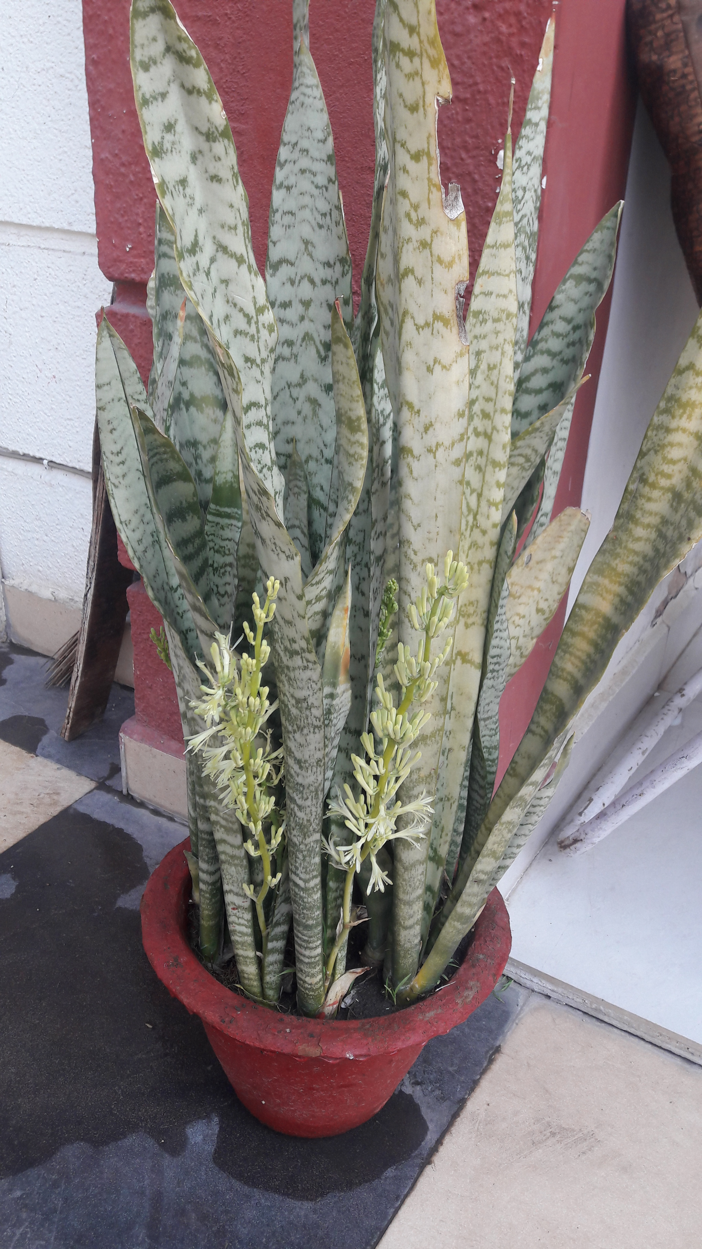 Flowering Sansevieria plant